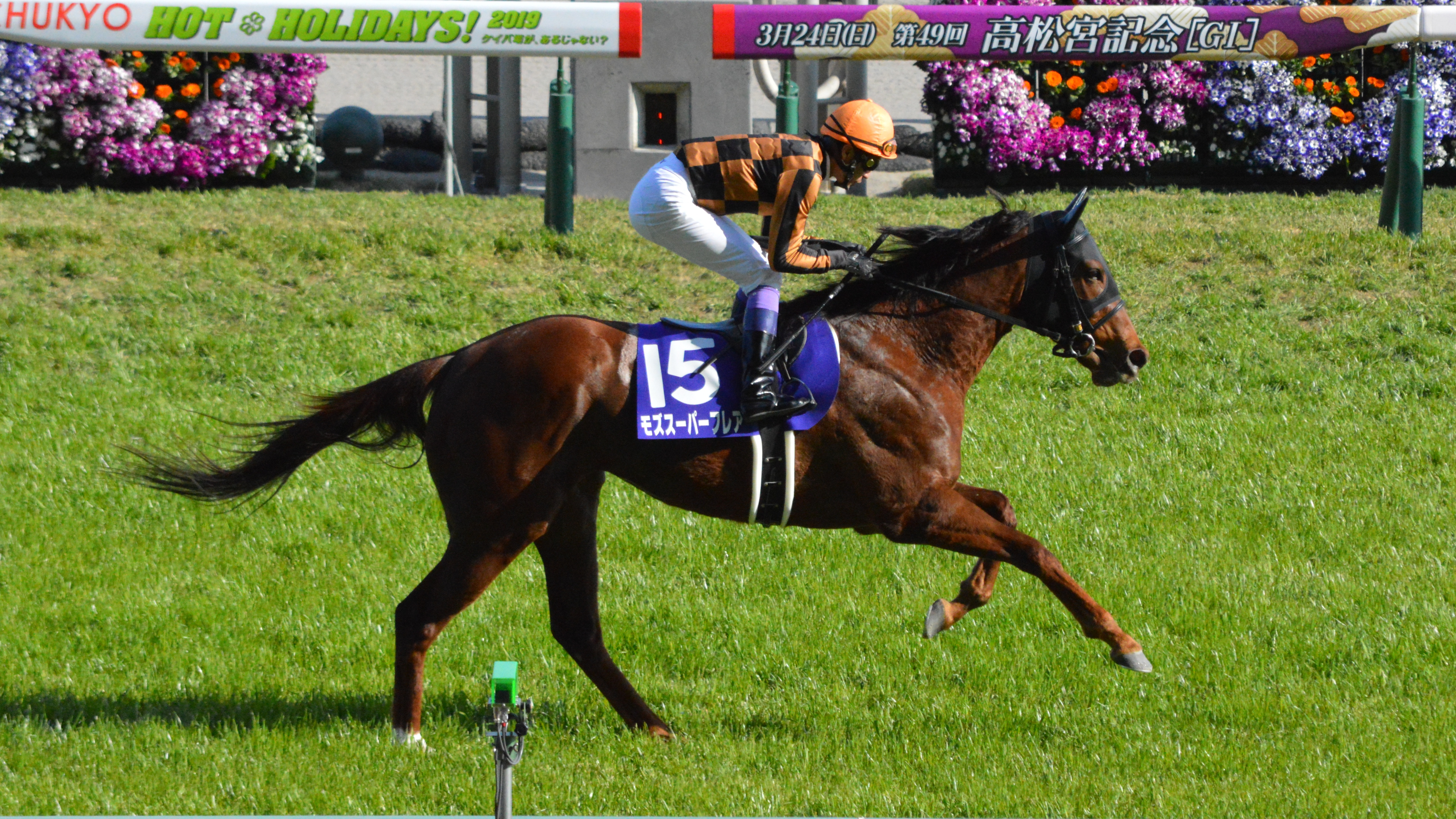 Japanese race horse Mozu Superflare at Chukyo racecourse.